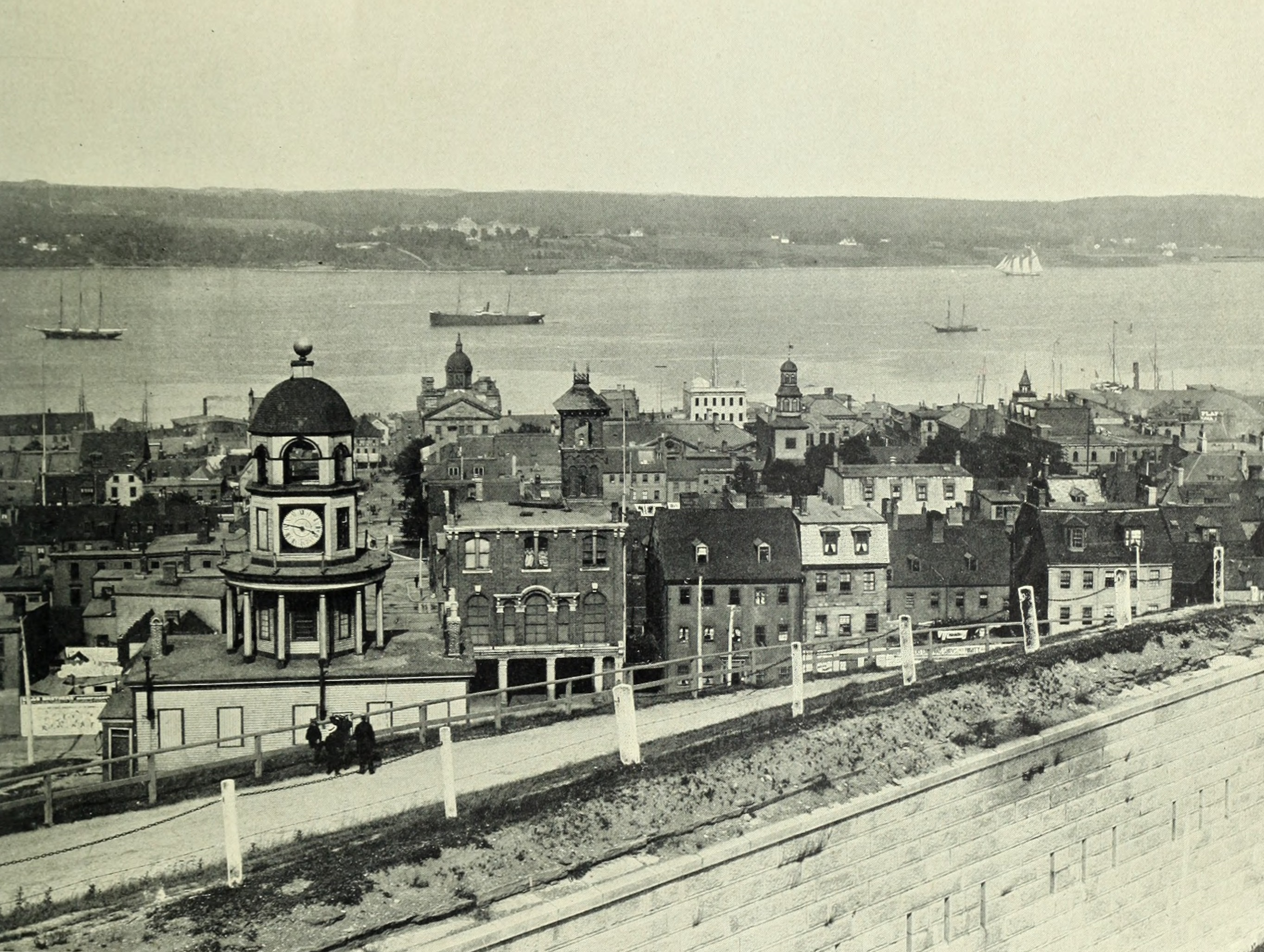 Halifax, Nova Scotia